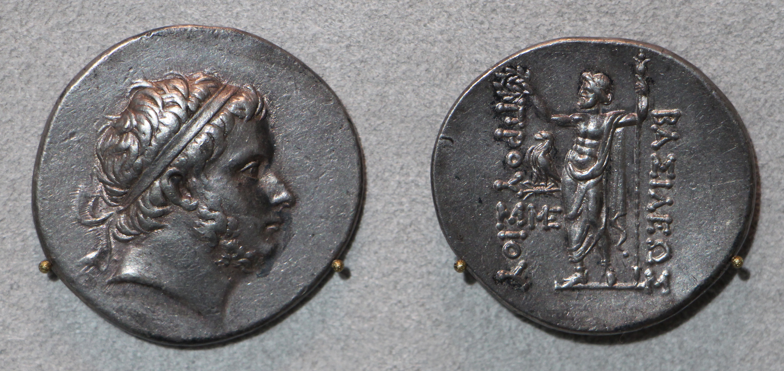 Ancient Greek coins in the Altes Museum Berlin